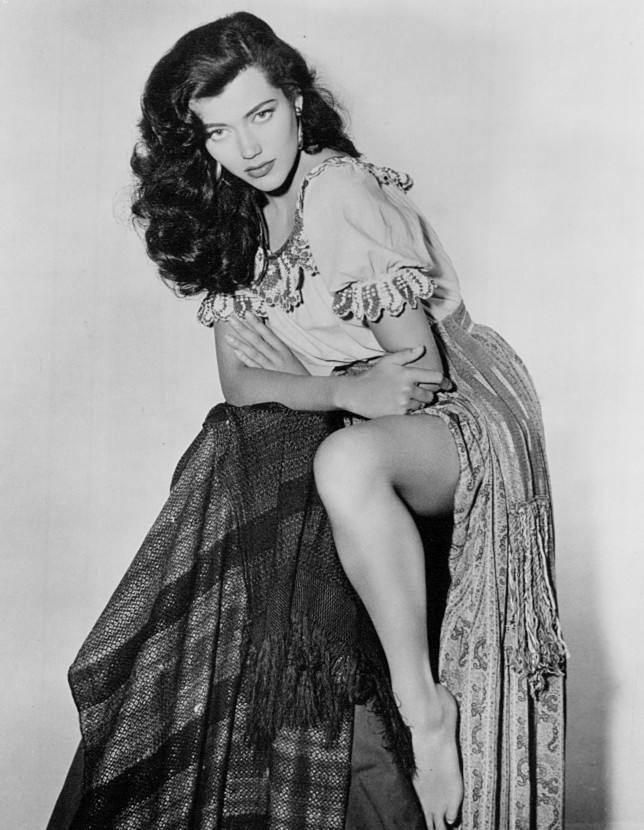 Photo of Sandra Edwards from a guest appearance on the television western Sugarfoot.